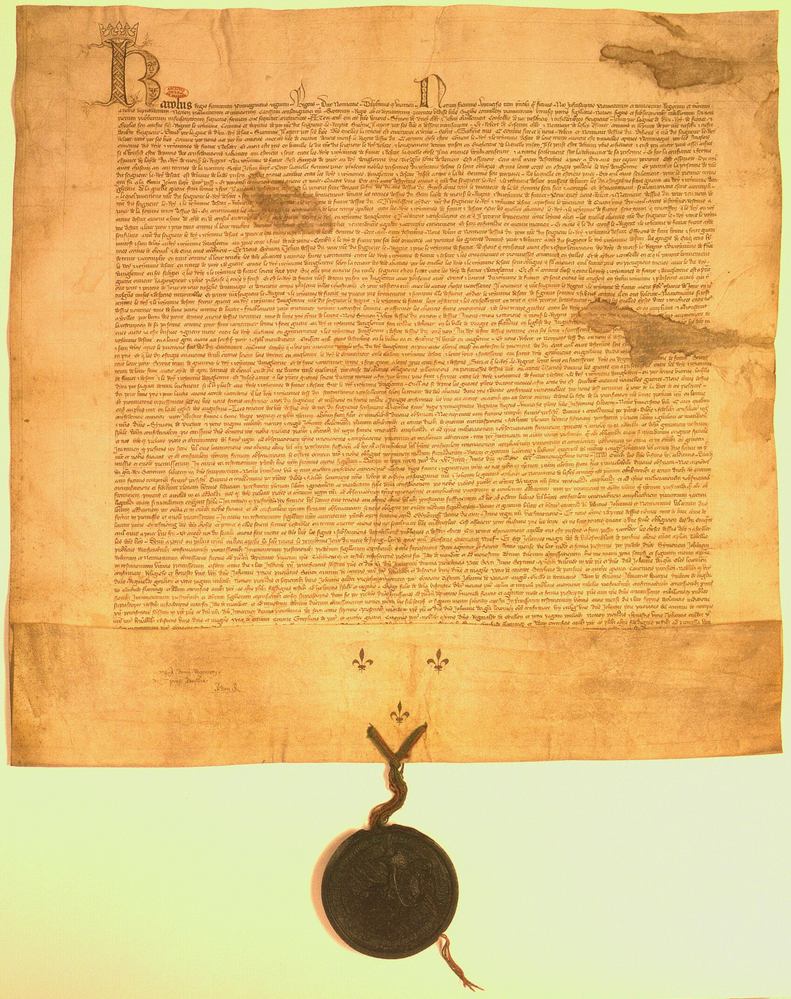 The alliance agreement between the dauphin Charles (the future Charles V) and King David II of Scotland. Paris, Archives nationales, J 677, No. 8.